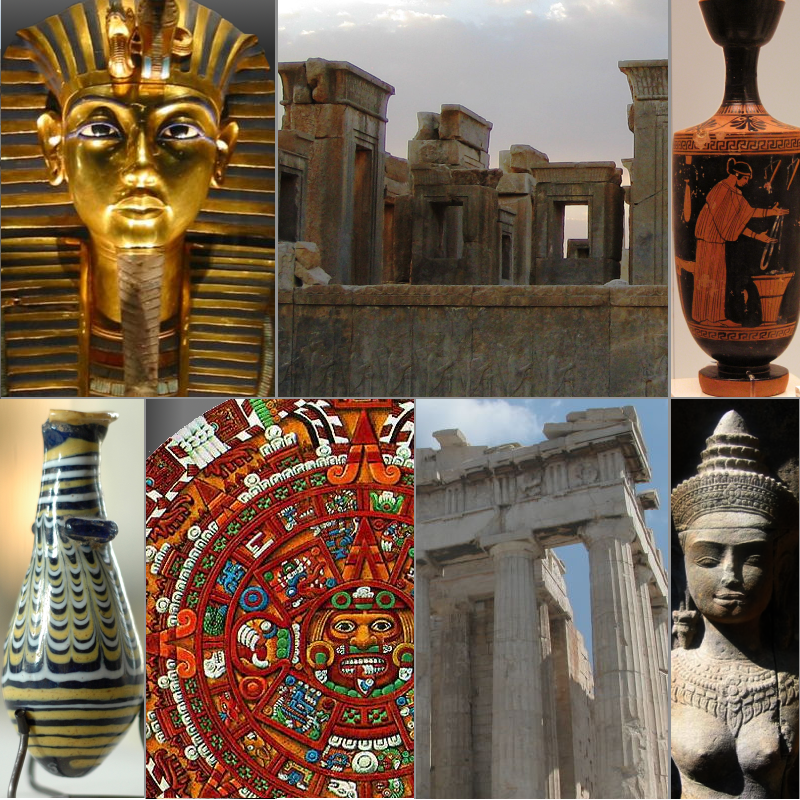 Front Page Graphic for Wikijunior Ancient Civilizations